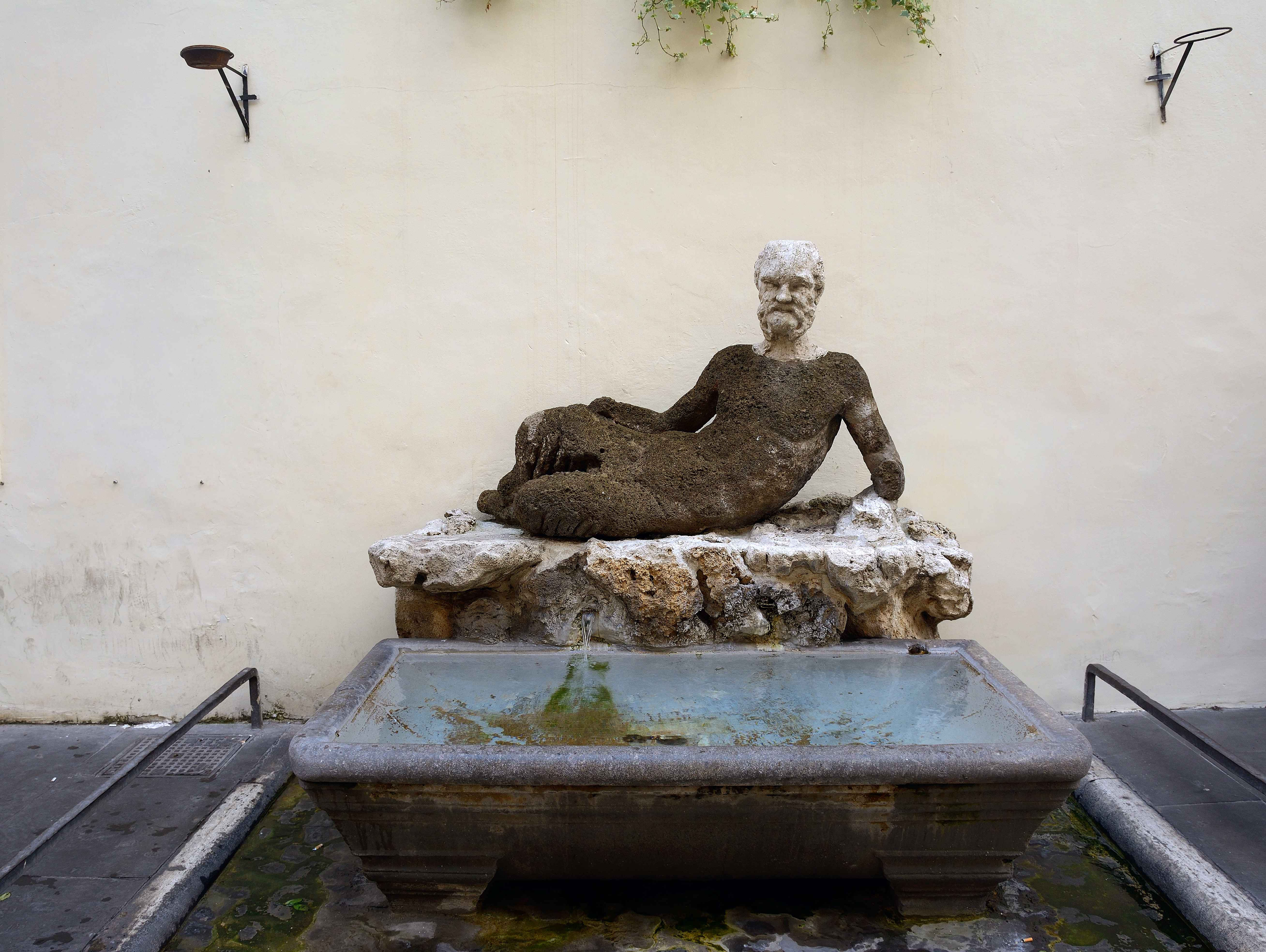 Fontana del Babbuino (Rome)